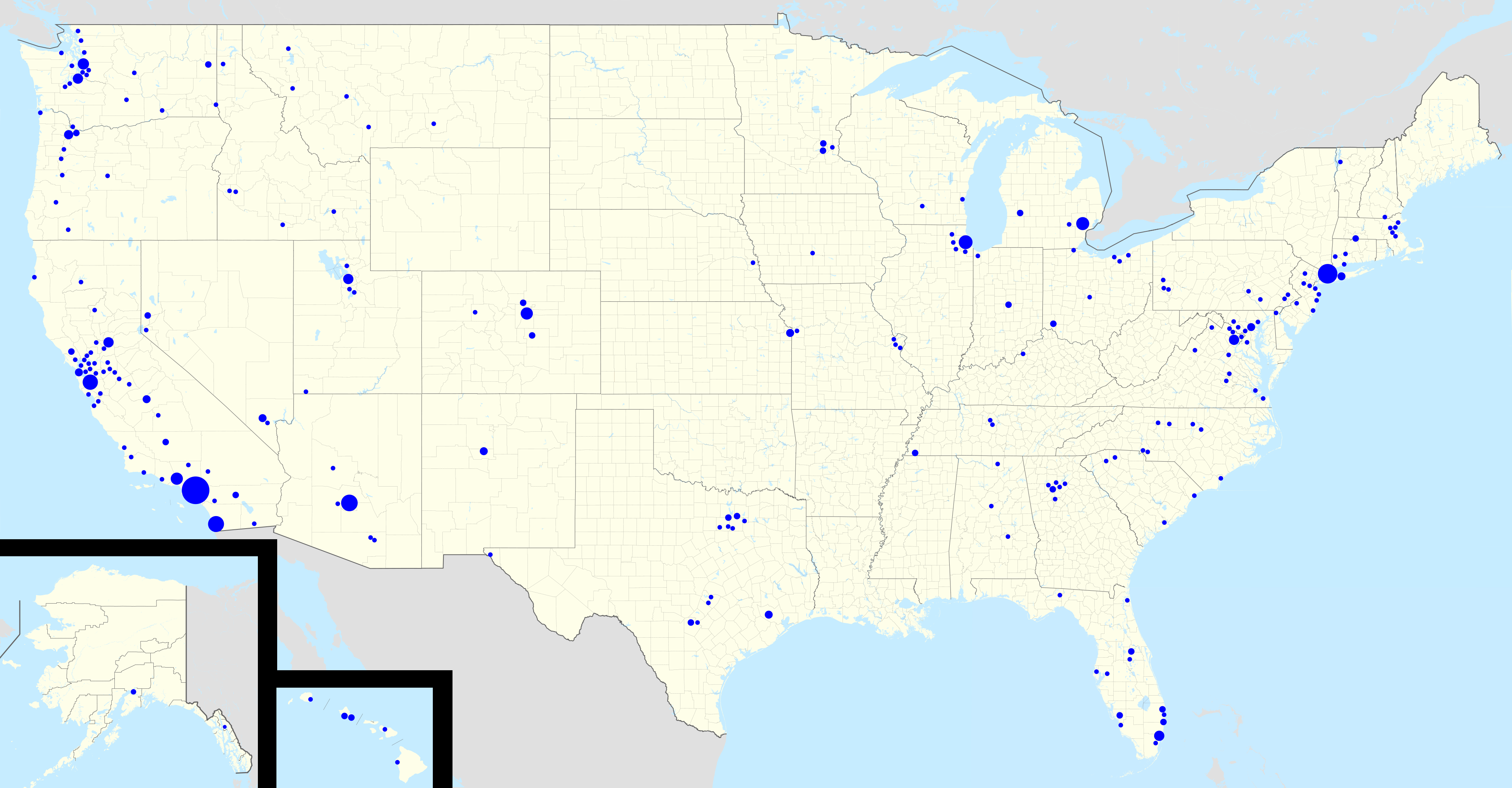 Footprint of Costco warehouses within the United States.